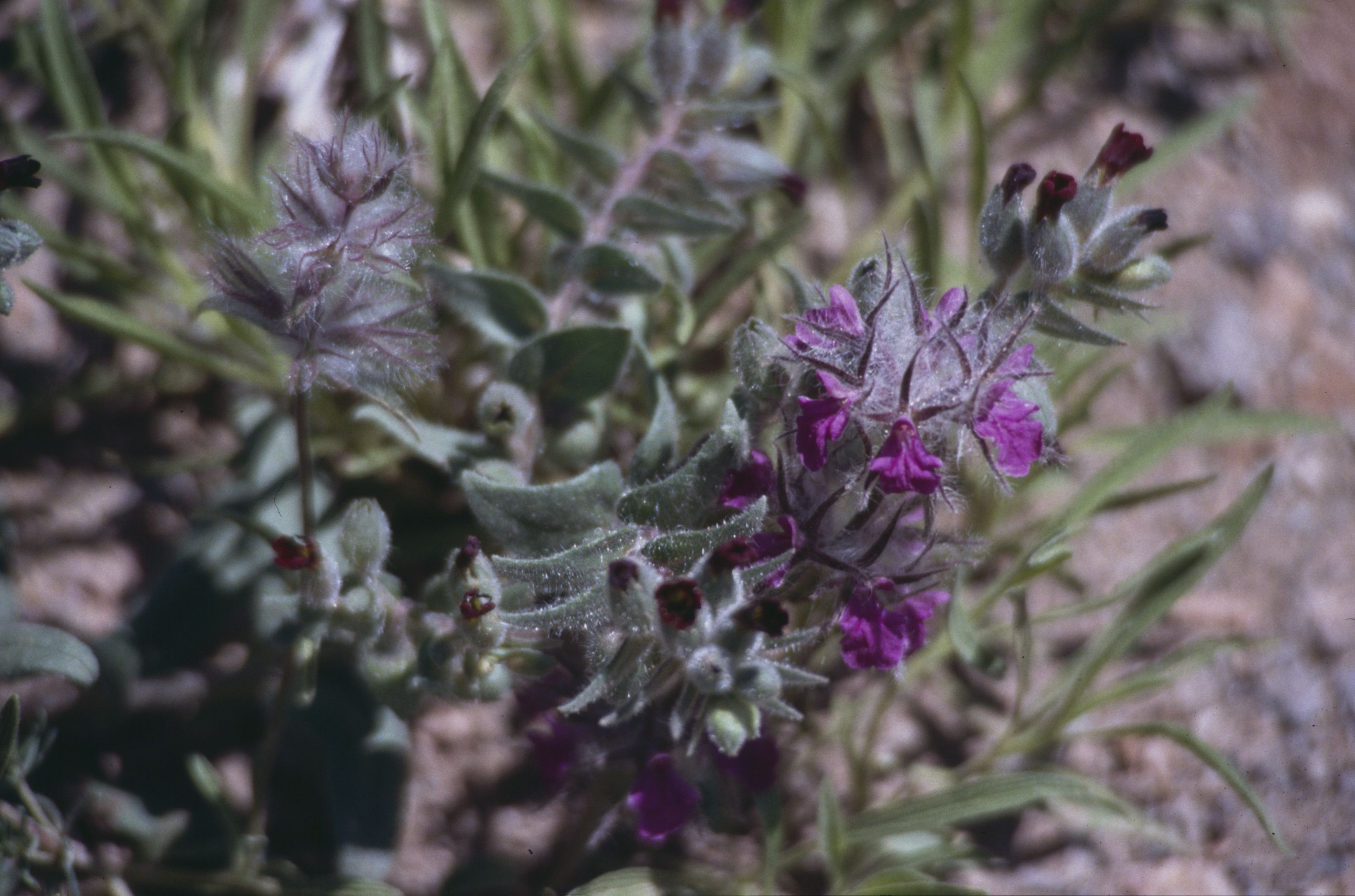 Stachys lavendulifolia